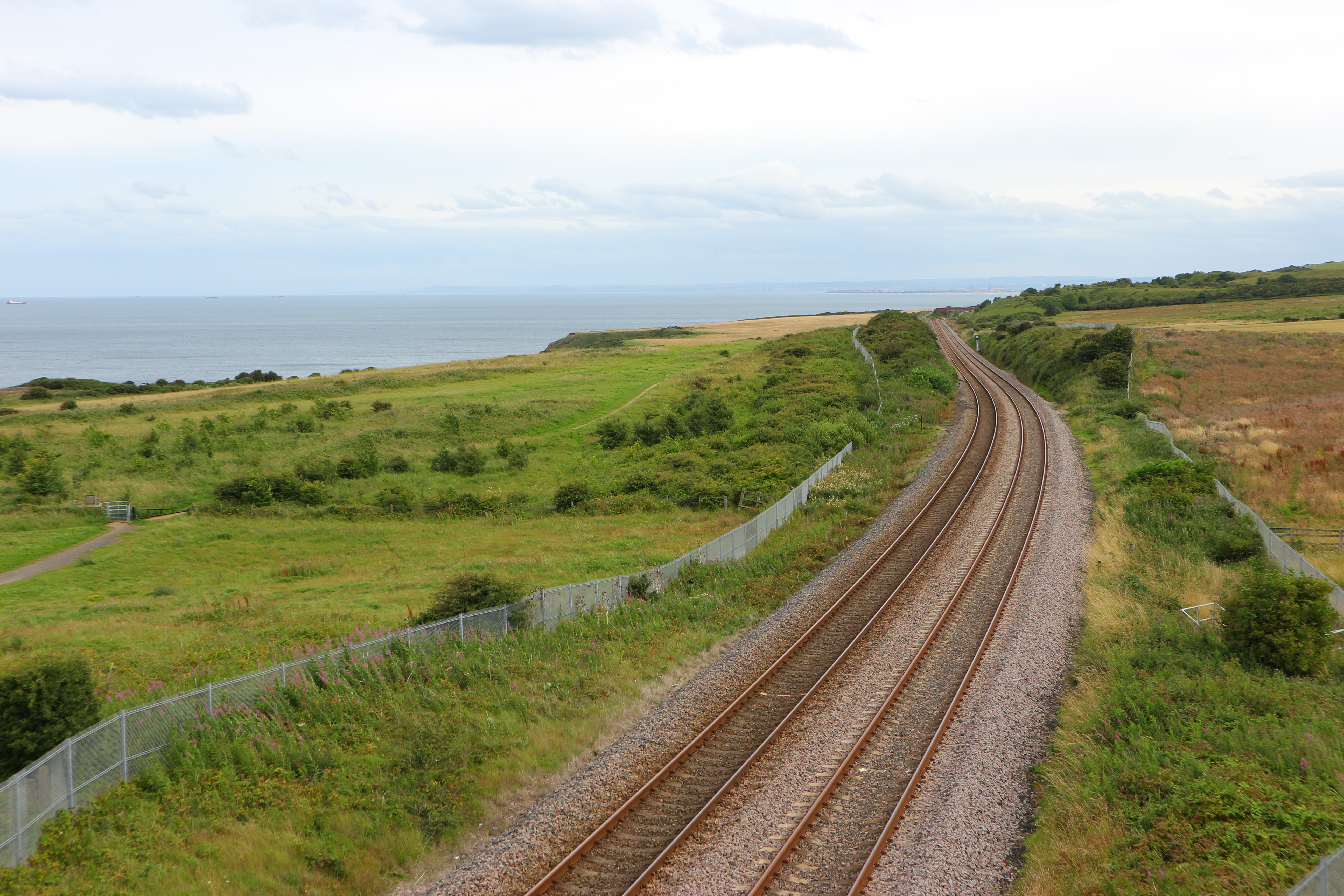 View south east along the Durham Coast Line. The photograph is taken from the bridge carrying the A182 over the line, looking towards Easington. A number of branches linking the line to Dawdon Colliery and Seaham Harbour branched from the line across the grass land in the left of the image.